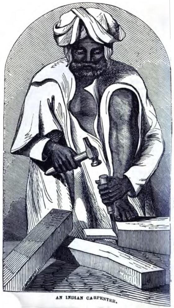 An Indian Carpenter (p.48, Richard G Hodson, Carpenters in India, Bangalore 9 September 1856)